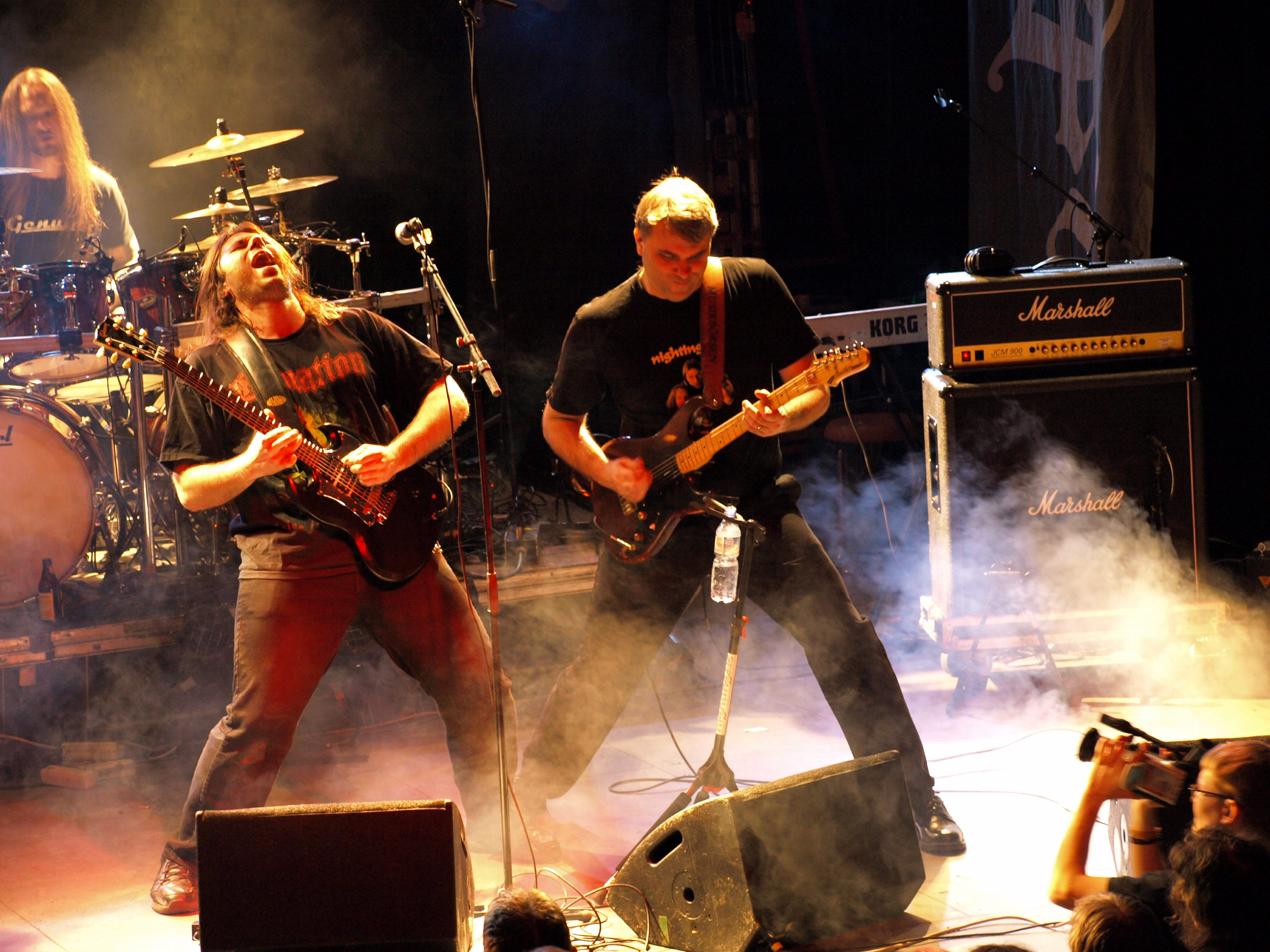 Swedish progressive metal band Nightingale live at Nosturi, Helsinki